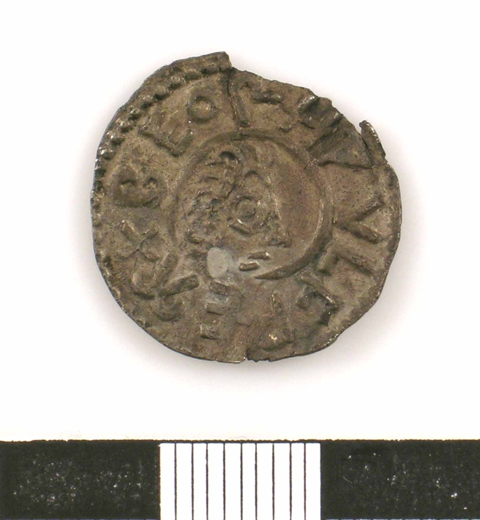 A silver coin of Beornwulf (AD 823-825), Type 11, from his East Anglian mint, moneyer Monna. North 397, BMC 114, BCS Be4. The edge of the coin has been slightly damaged, resulting in a loss of approximately 5% of the coin. EMC 2006.0152